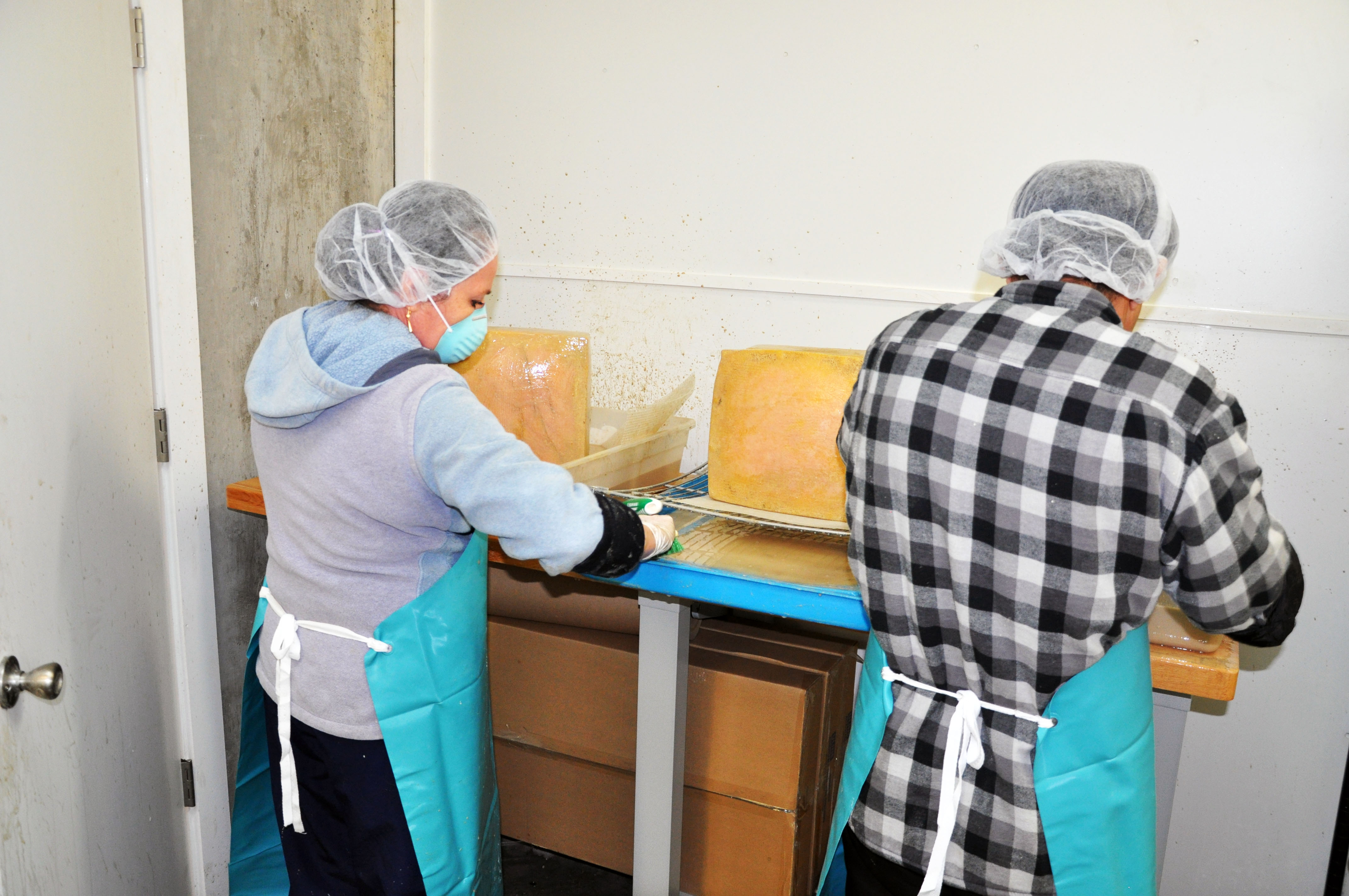 Workers at the Chaseholm Creamery give a brine wash to the cheese blocks at the Chaseholm Creamery in Pine Plains, NY.